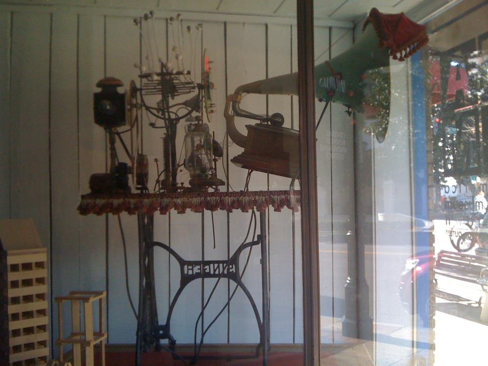 Visivision Machine by Rowland Emett in the store front of Mid- America Museum